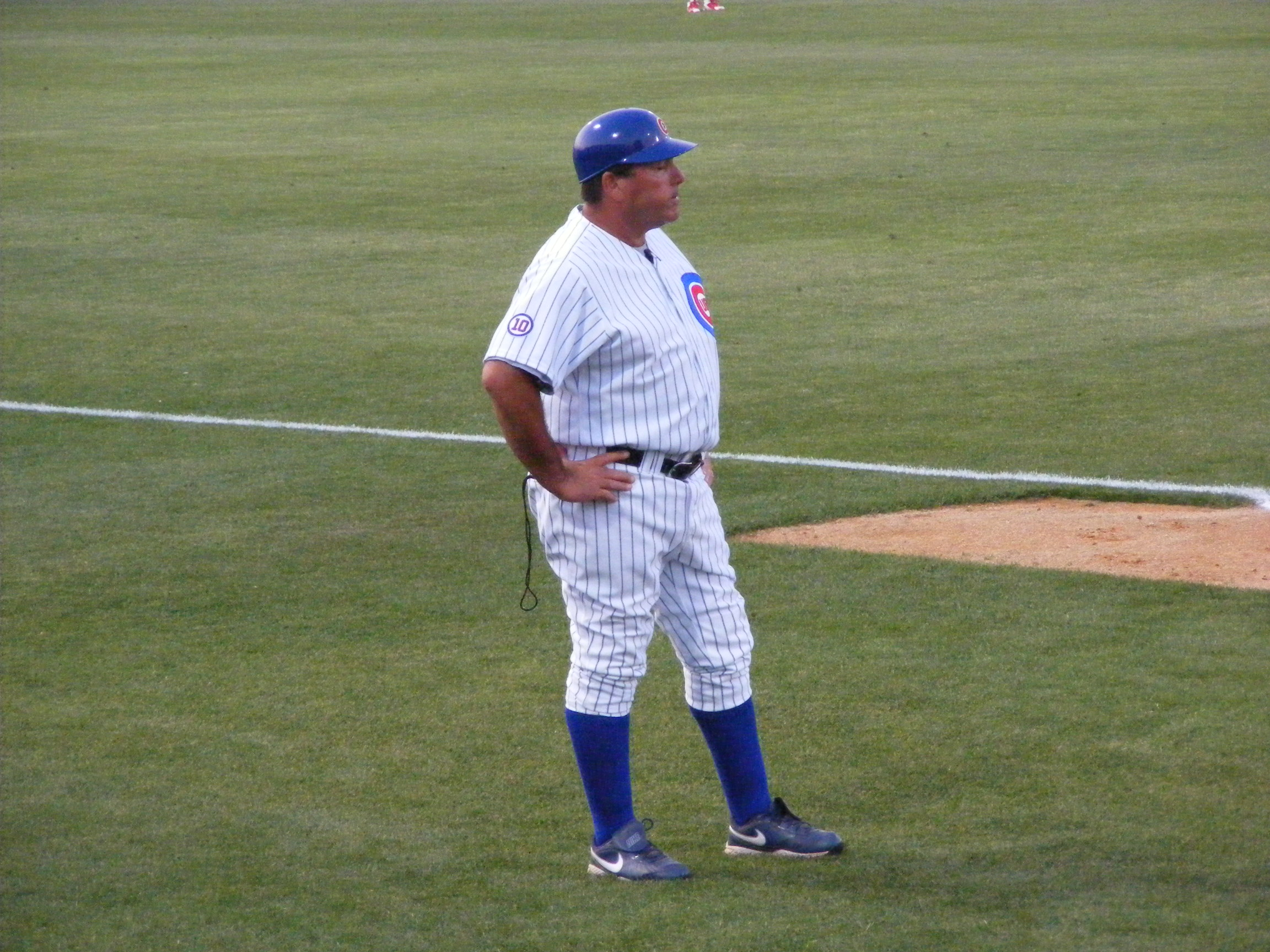 Buddy Bailey, Manager of the Daytona Cubs, photo taken at Jackie Robinson Ballpark, game vs. Clearwater Threshers.